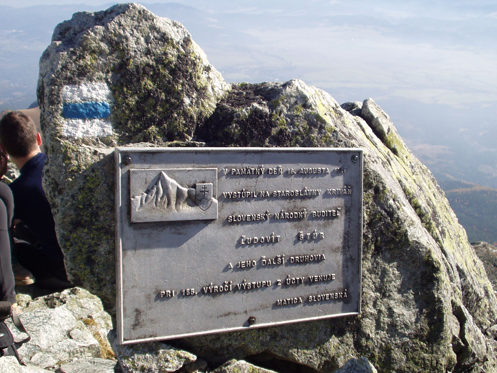 tablet on Kriváň